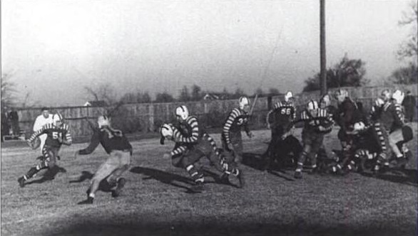 Middle Tennessee State Normal School's football team circa 1922